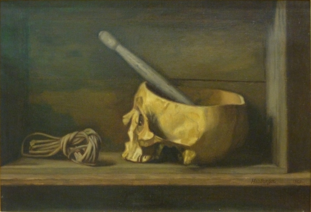 Oil on canvas, 38 x 55 cm. Castres Goya Museum.